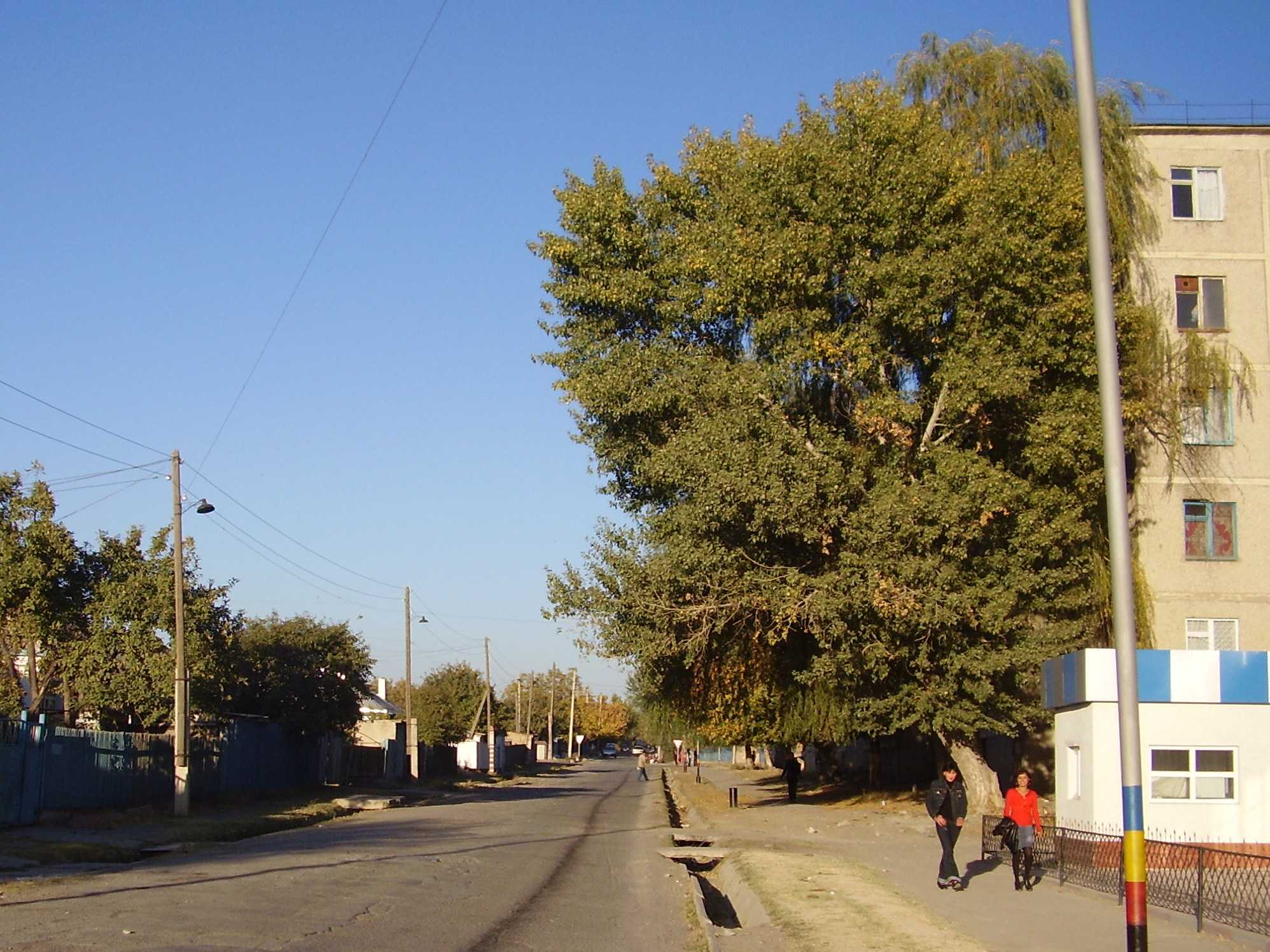 Kentau.